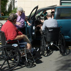 Anaheim disability group looking at Soft Touch in 2001 PT Cruiser